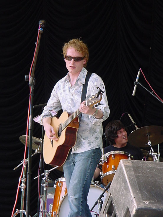 ( Credit - SuburbanCowboy on Flickr.